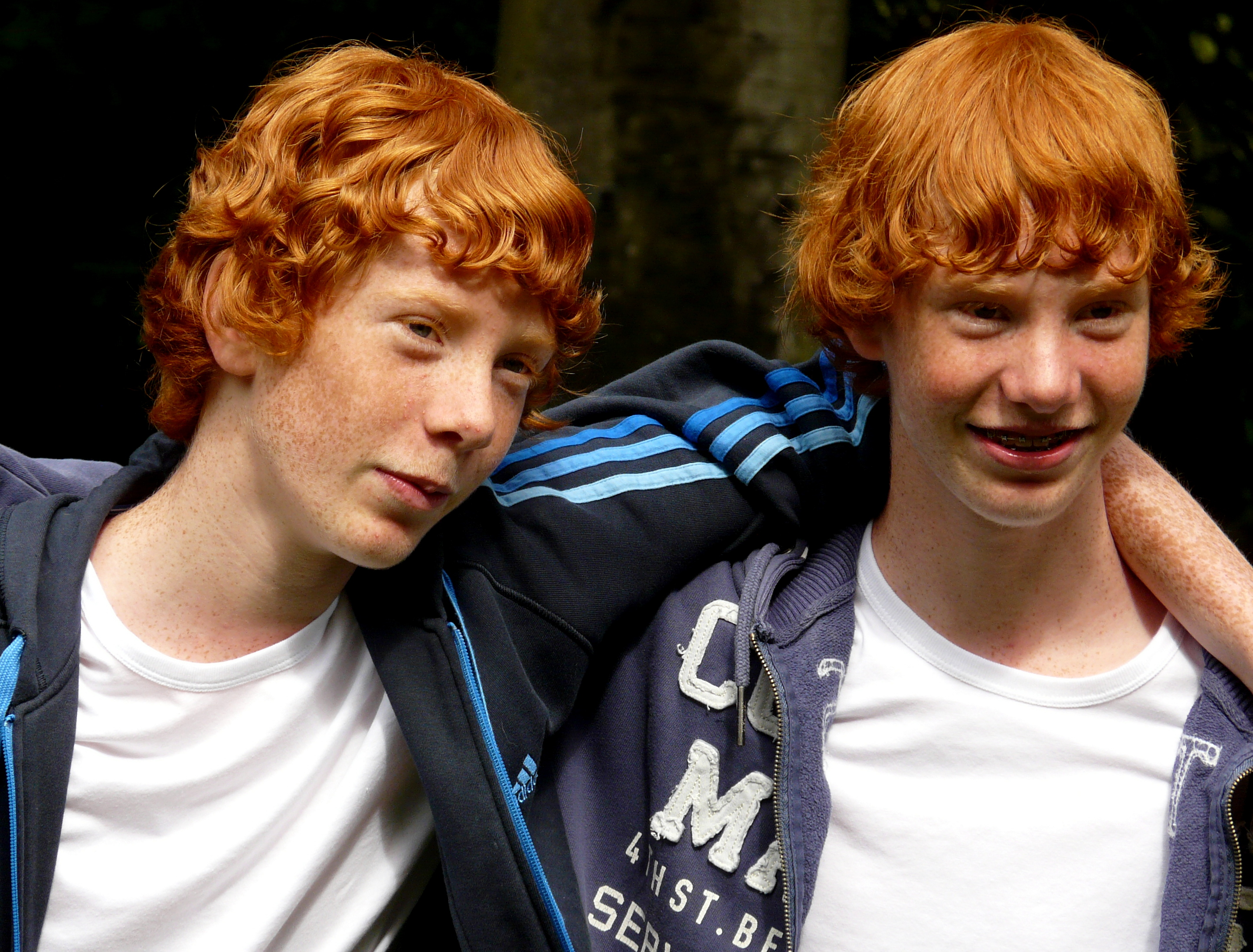 Two redheaded twins during the Roodharigendag (Redhead Day) in Breda, Netherlands